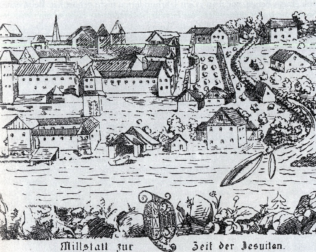 Odest view of the monestry of Millstatt / district Spittal an der Drau in Carinthia / Austria / European Union.